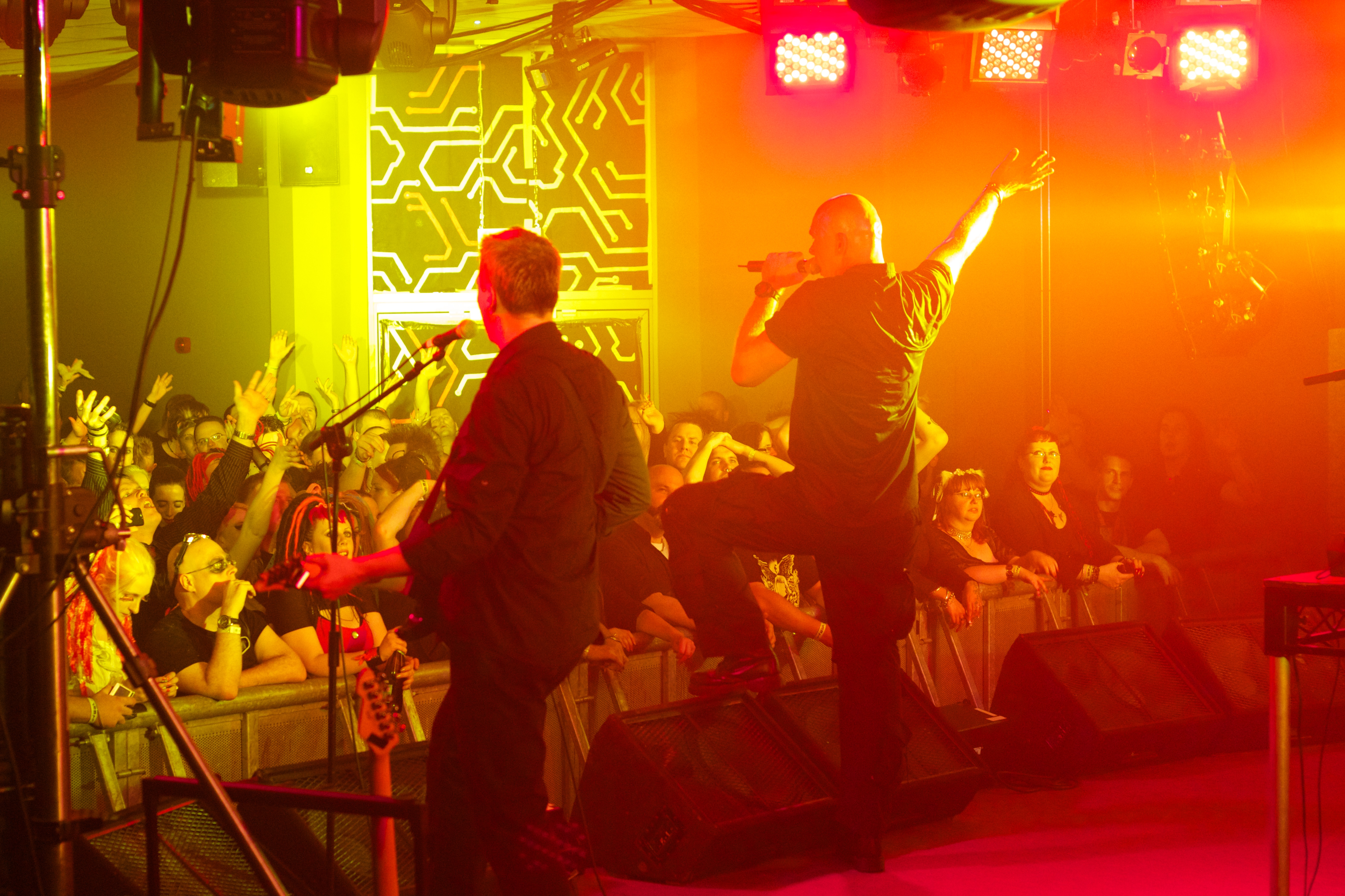 The German band Rotersand during their performance at "Infest 2010" in Listerhills, UK on August, 28th 2010.